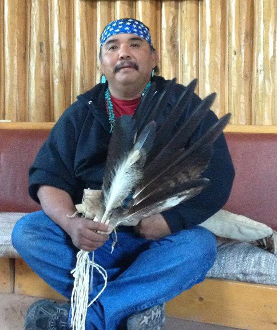 Dine / Navajo Wayne in N.A.B.I Prayer Hogan in Burnt water Az. Wayne is a Dine' (Navajo) who was born in Fort Defiance, Az. and is From Tiis Iiahi( Pine Springs), AZ. I am Bitahnii (Folded Arms)Clan born for Toh Ahedlii nii (Two waters That Flow Together) Clan he was raised by his Grand Mother Nesbah Burnside in a Traditional Dine' (Navajo) Hogan (a circular home or dwelling, during the time he was raised and brought in the Hogan he grew up witnessing many Protection Way and Blessing way or Beauty way ceremonies performed by his Grand Father John Burnside who was one of many Medicine men in the Community of Pine Springs who is now deceased. Wayne has assisted his Grand Father in gathering Herbs and sand for Iikaa (Sand Painting) for ceremonies that are not really performed anymore that John Performed for his patients. Wayne attends and assists singing in Hozhoji or Biji (Blessing way) ceremonies he feels he has attained some of his elders common sense and Spiritual teachings and is only participating in the process of long life learning. When Wayne's Grand mother and Grand Father passed away, his parents also passed away and was brought in his teenage years by his Aunt's and Uncles who also were into snd ordained in the Native American Church of Navajo land now known as the Azee Bee Nahagha of Dine Nation. Waynes uncle performed Native American Church ceremonies for him when he went to School. He Fort Wingate Boarding School, Pine Springs Boarding School, Sanders Elementary and Graduated from Valley High School and on to Mott Community College in Flint, MI, and Central Michigan University, in Mt. pleasant, MI. Wayne also is a artist, singer, a motivational speaker and a Pow-wow Dancer